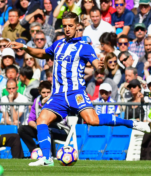 Foto Zou